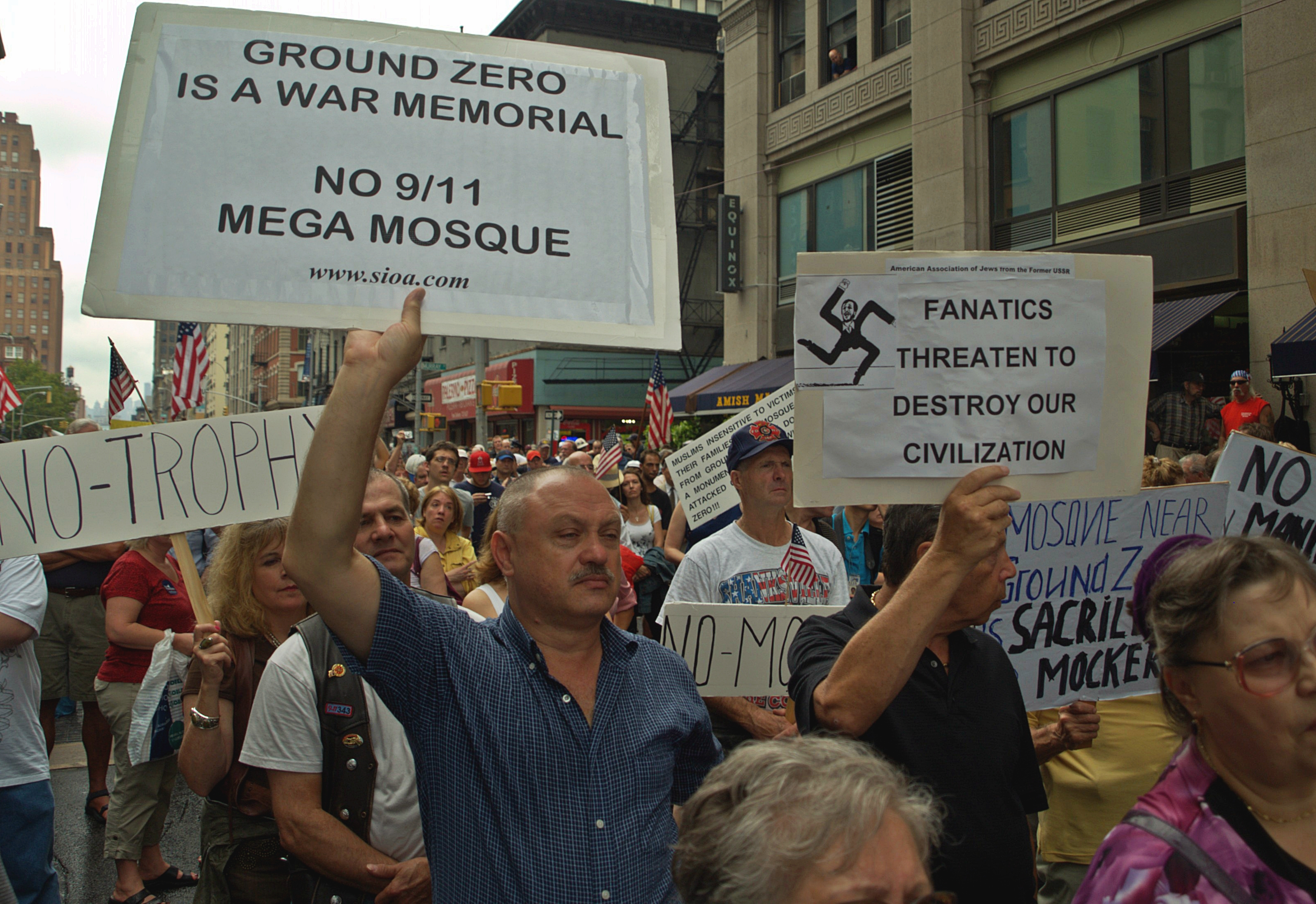 Photos of the Sunday, August 22, 2010 Cordoba House protest.